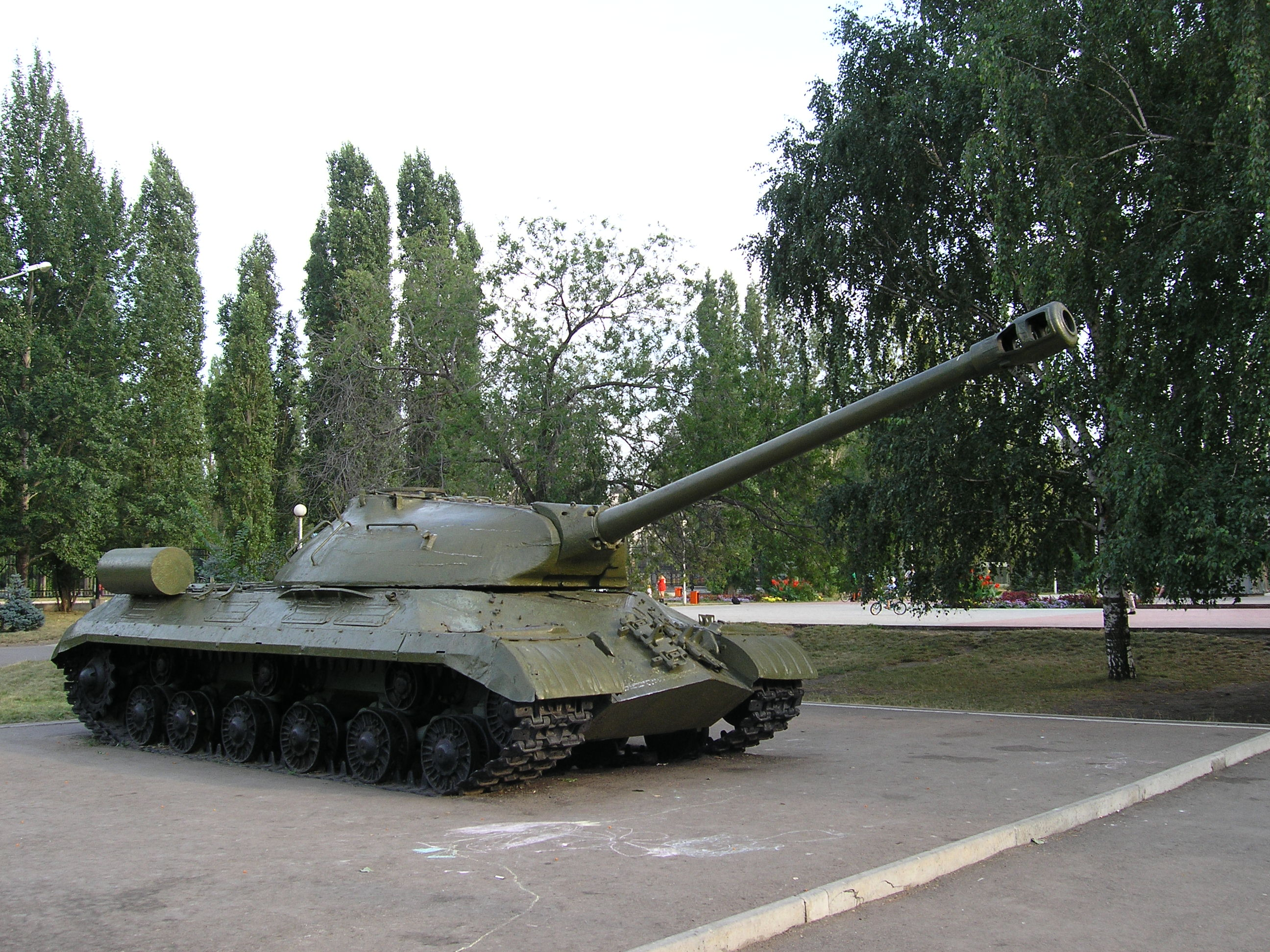 IS-3 tank in Park of Victory, Togliatti, Russia